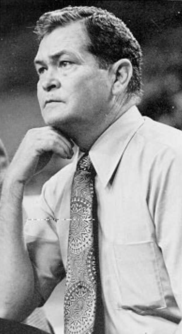 Idaho State University Basketball Coach Jim Killingsworth from the 1972 “Wickiup” yearbook.